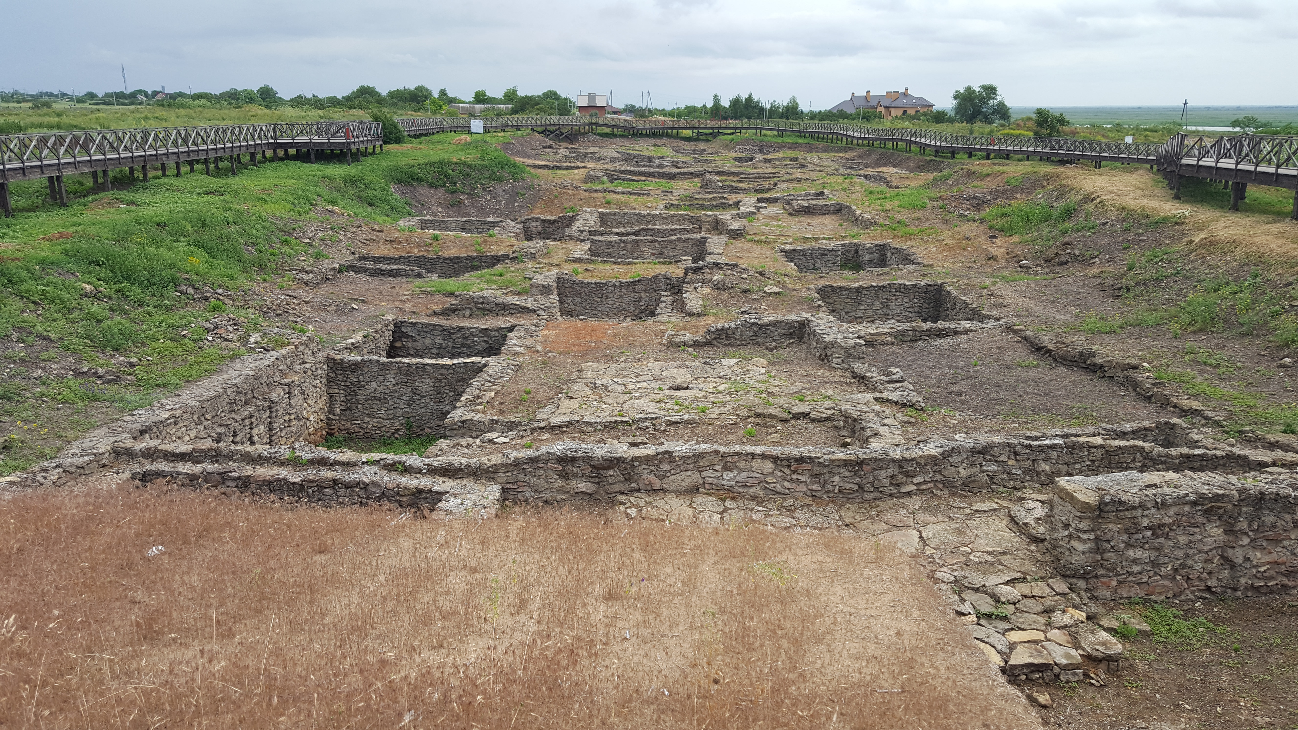 Excavations of Tanais, ancient Greek colony situated in today's Rostov oblast, Russia.